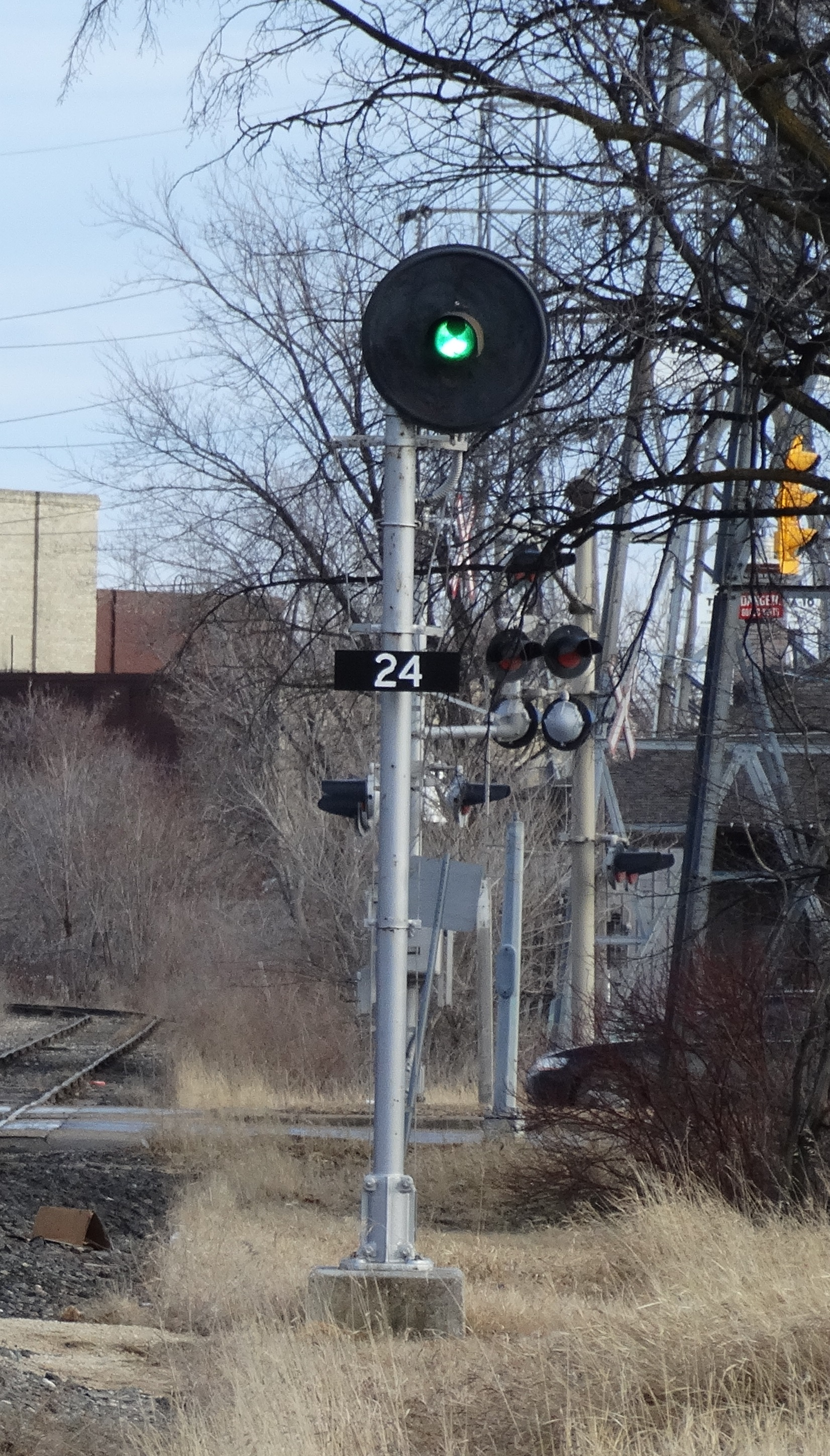 A one head searchlight clear signal on a CN track.